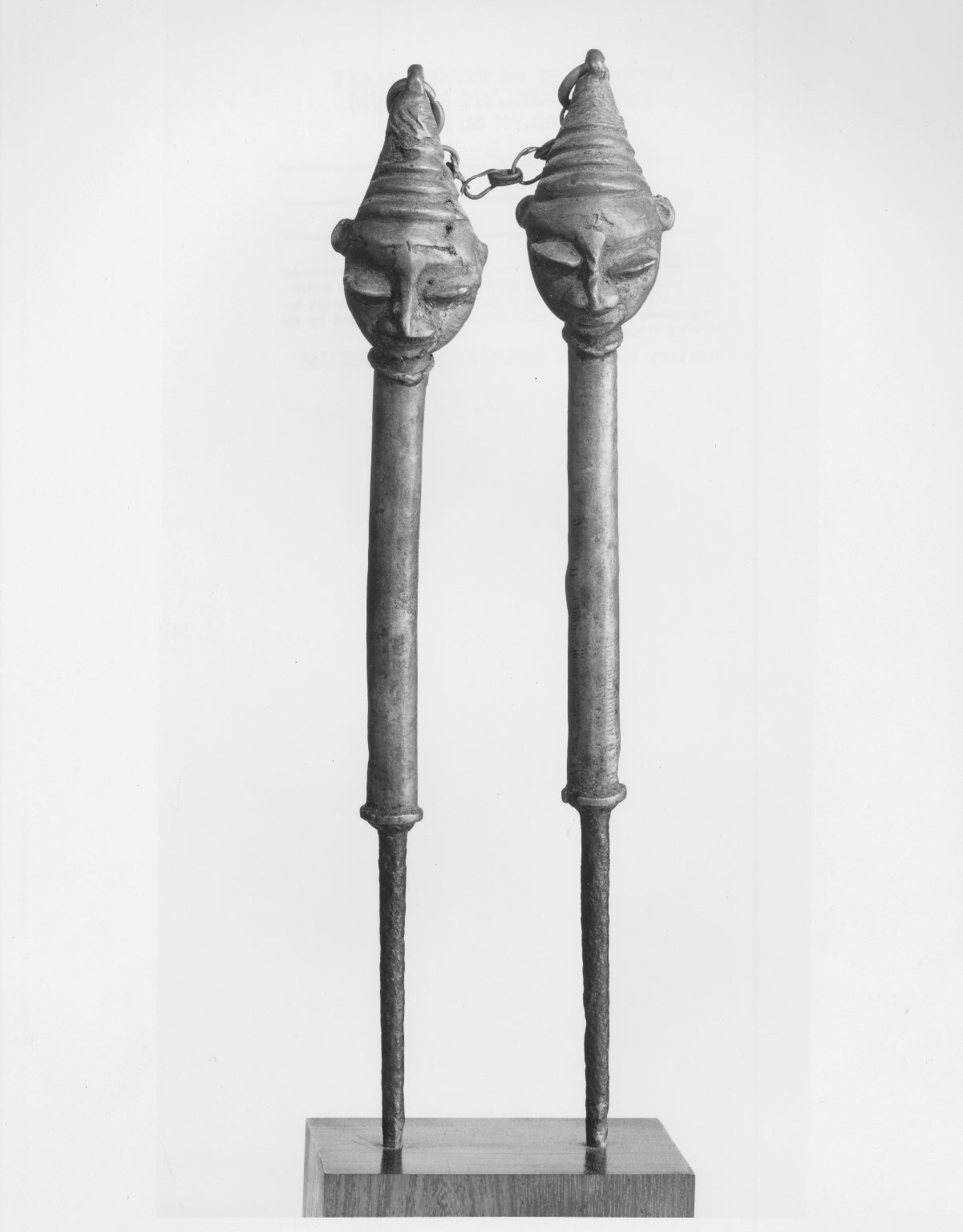 Pair of Figurated Staffs (Edan Ogboni)